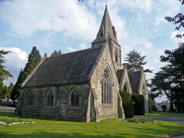 Chapel at Tunbridge Wells Borough cemetery Situated in the centre of the cemetery.